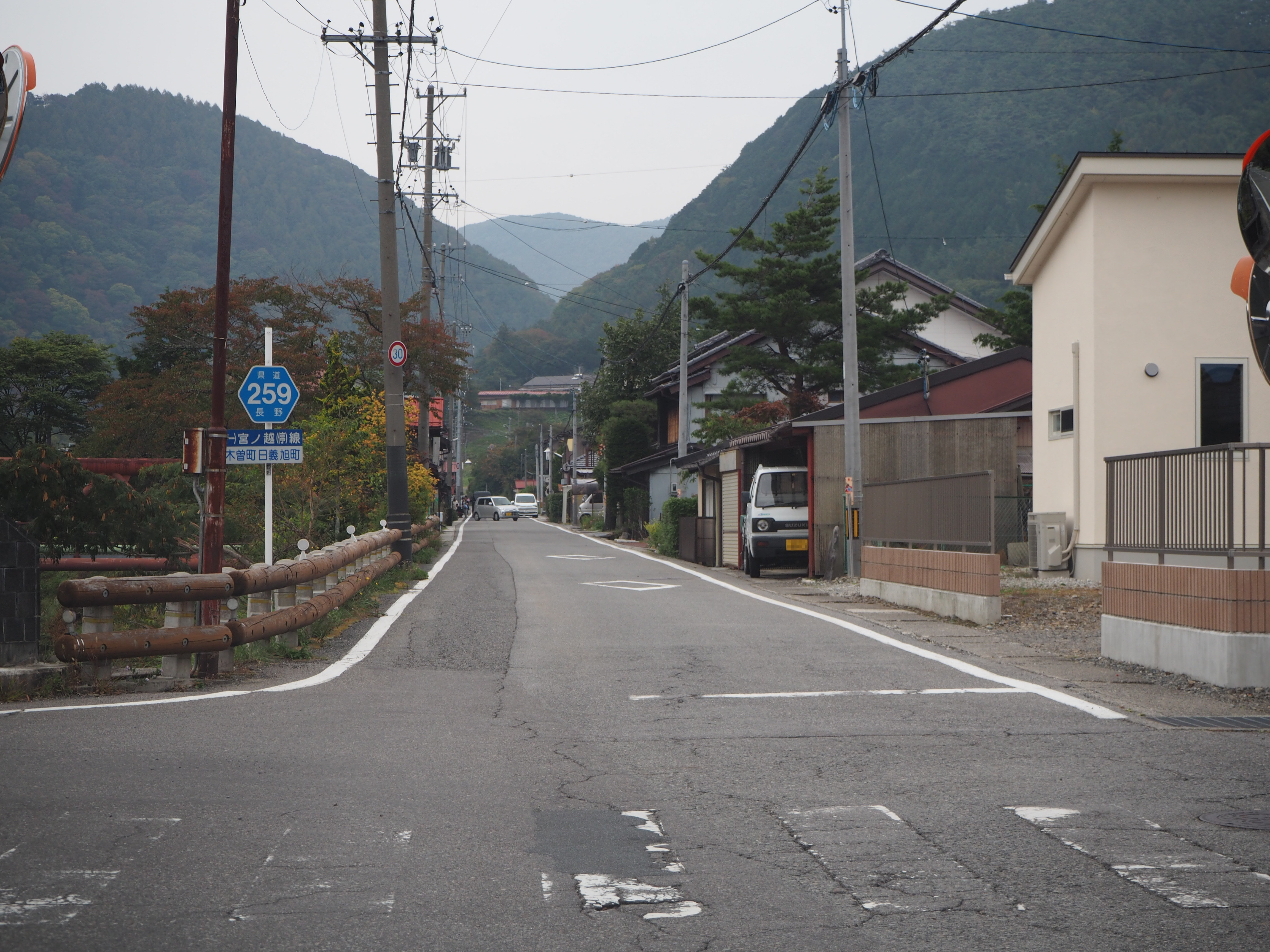 Nagano Prefectural road 259